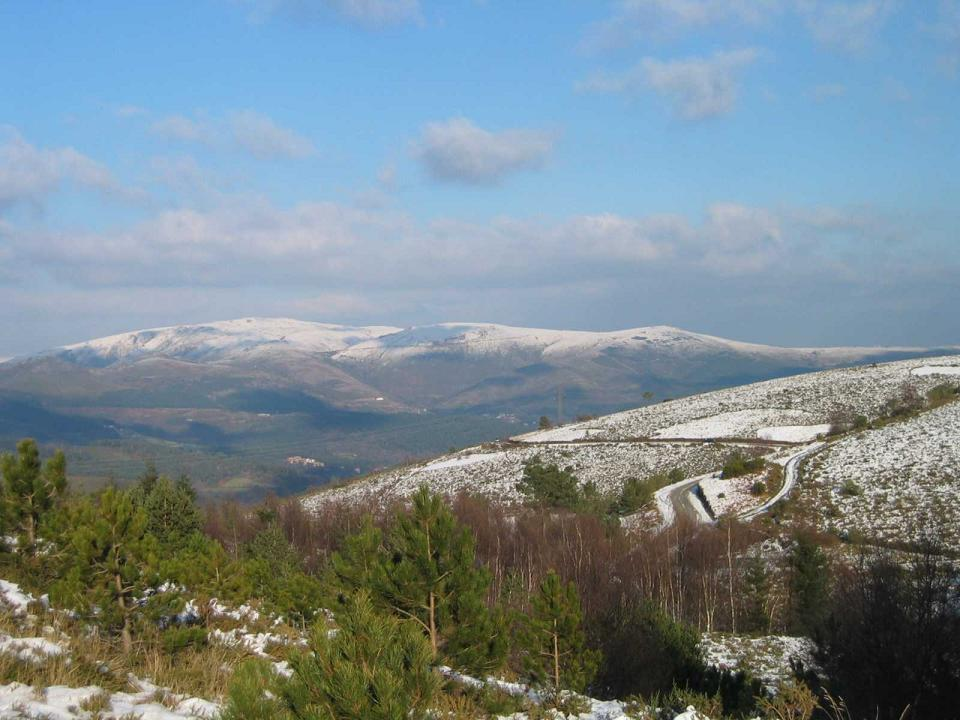 Mountain - Serra do Marão - Portugal